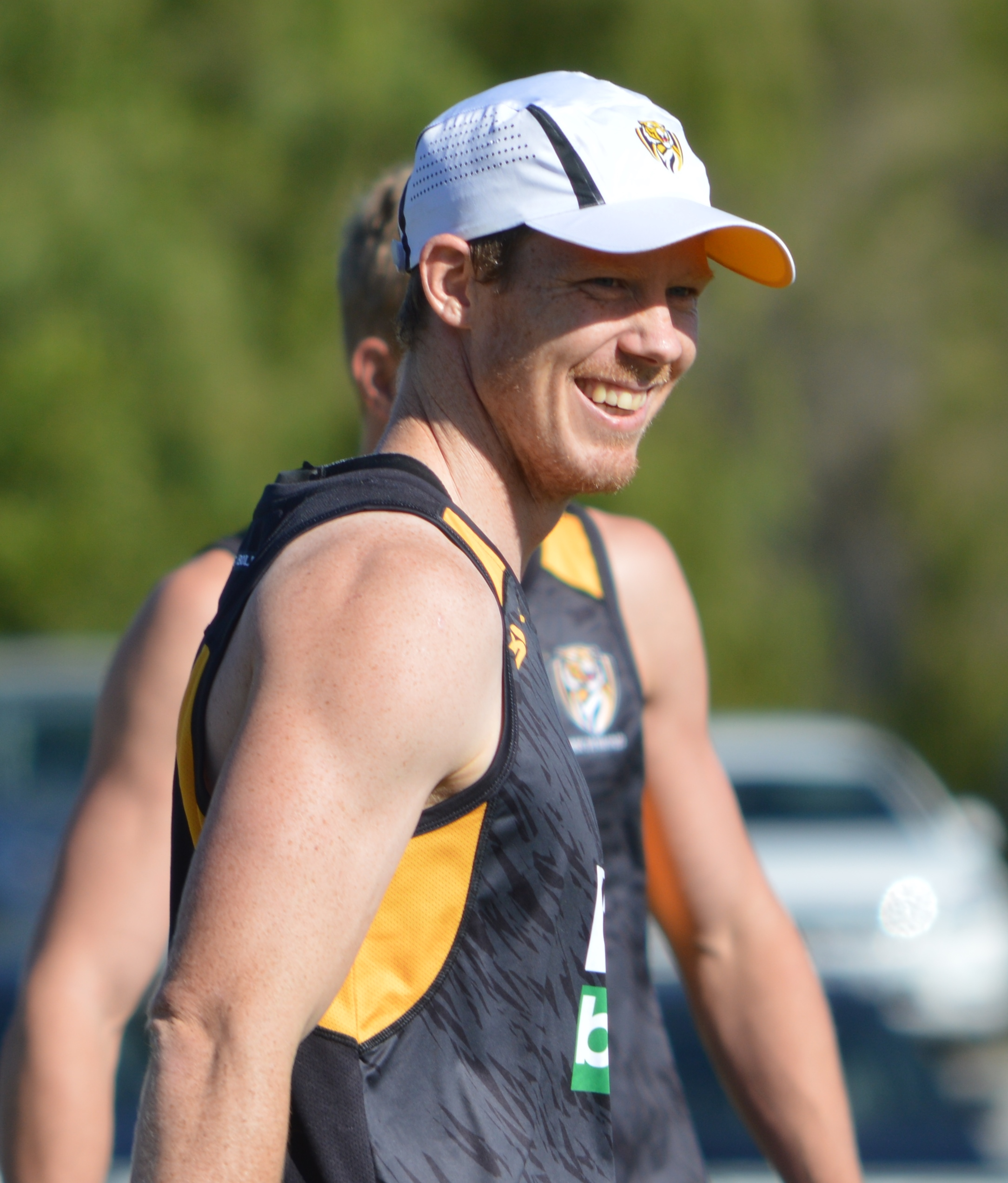 Jack Riewoldt at Richmond Football Club's family day in Beaconsfield Victoria on 20 December, 2016.